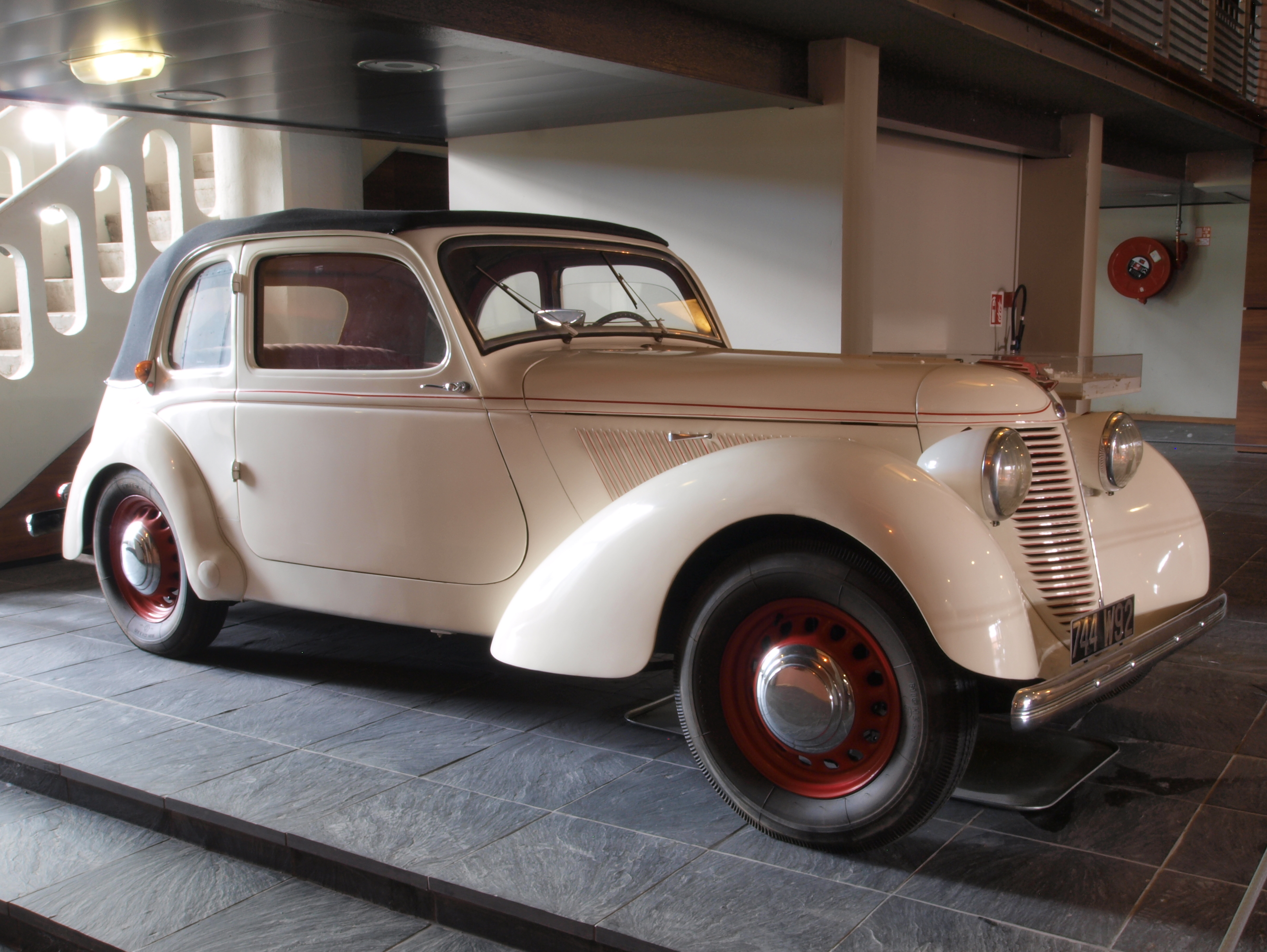 Photographed at the Cité de l’Automobile, France. OLYMPUS DIGITAL CAMERA